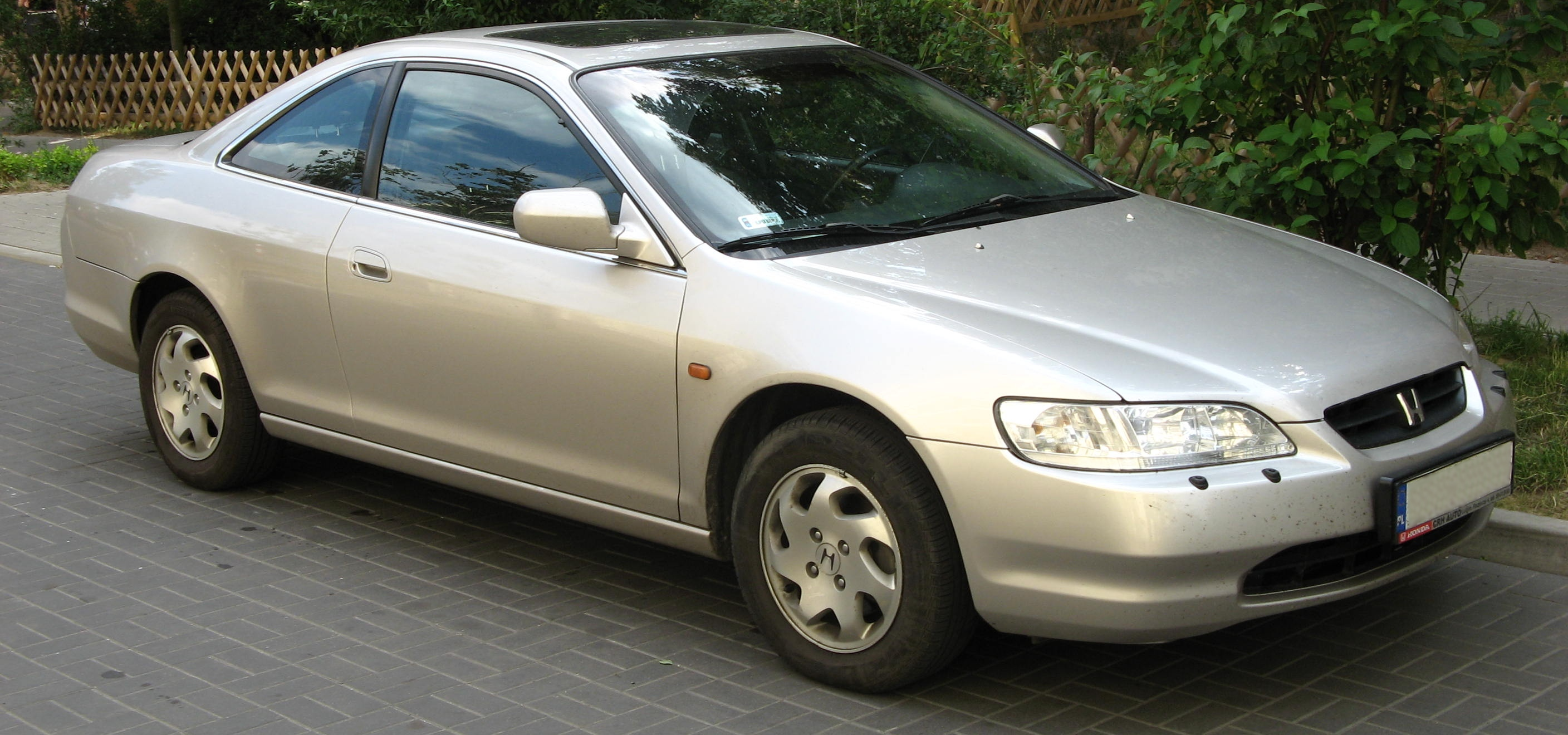 Honda Accord Coupé (6th generation, USDM model, undefined model year), silver, photographed in Warsaw